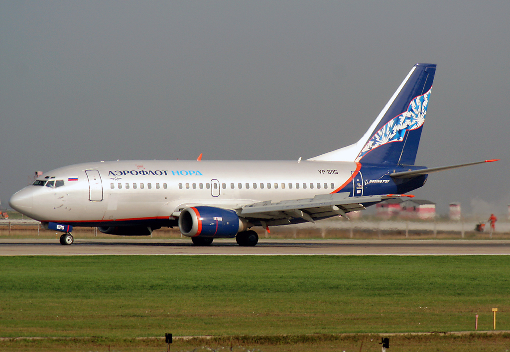 Aeroflot-Nord Boeing 737-500 VP-BRG arrives Moscow-Vnukovo Airport